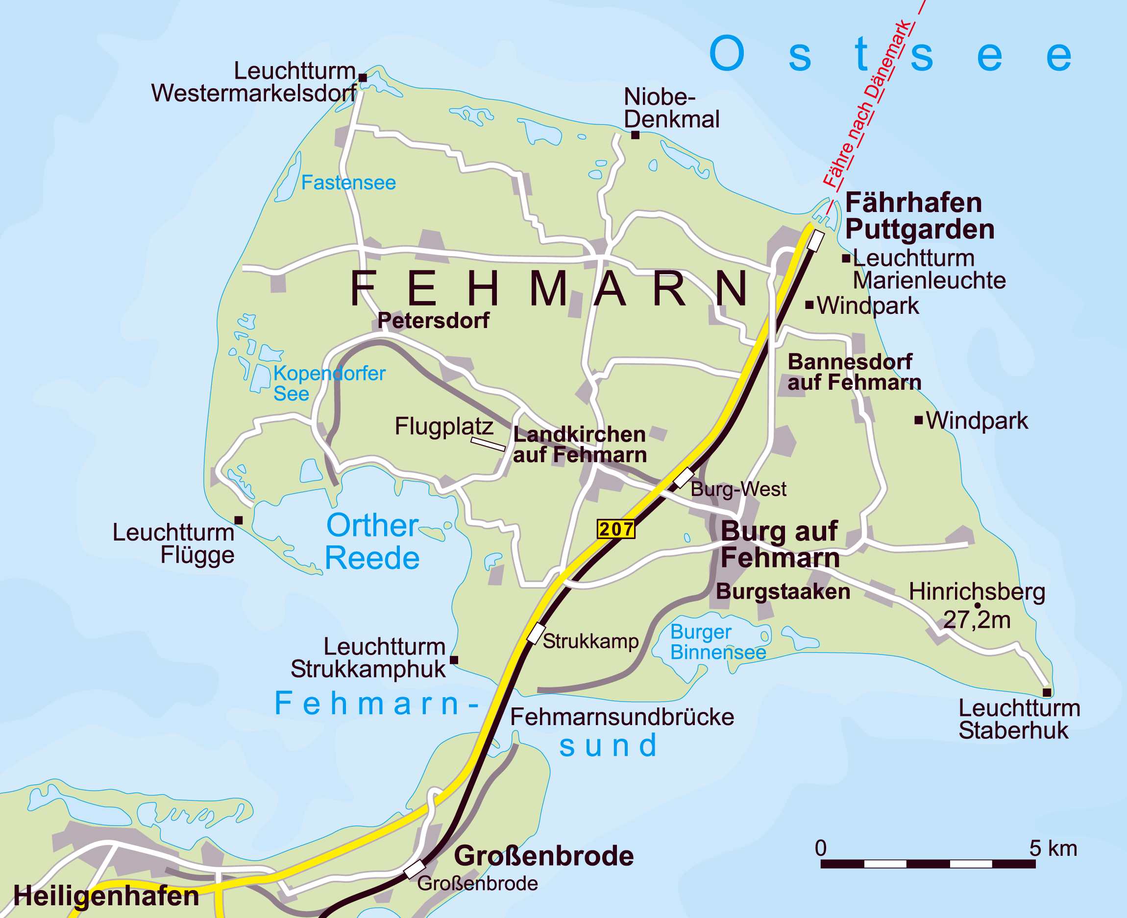 Railway map of the isle of Fehmarn